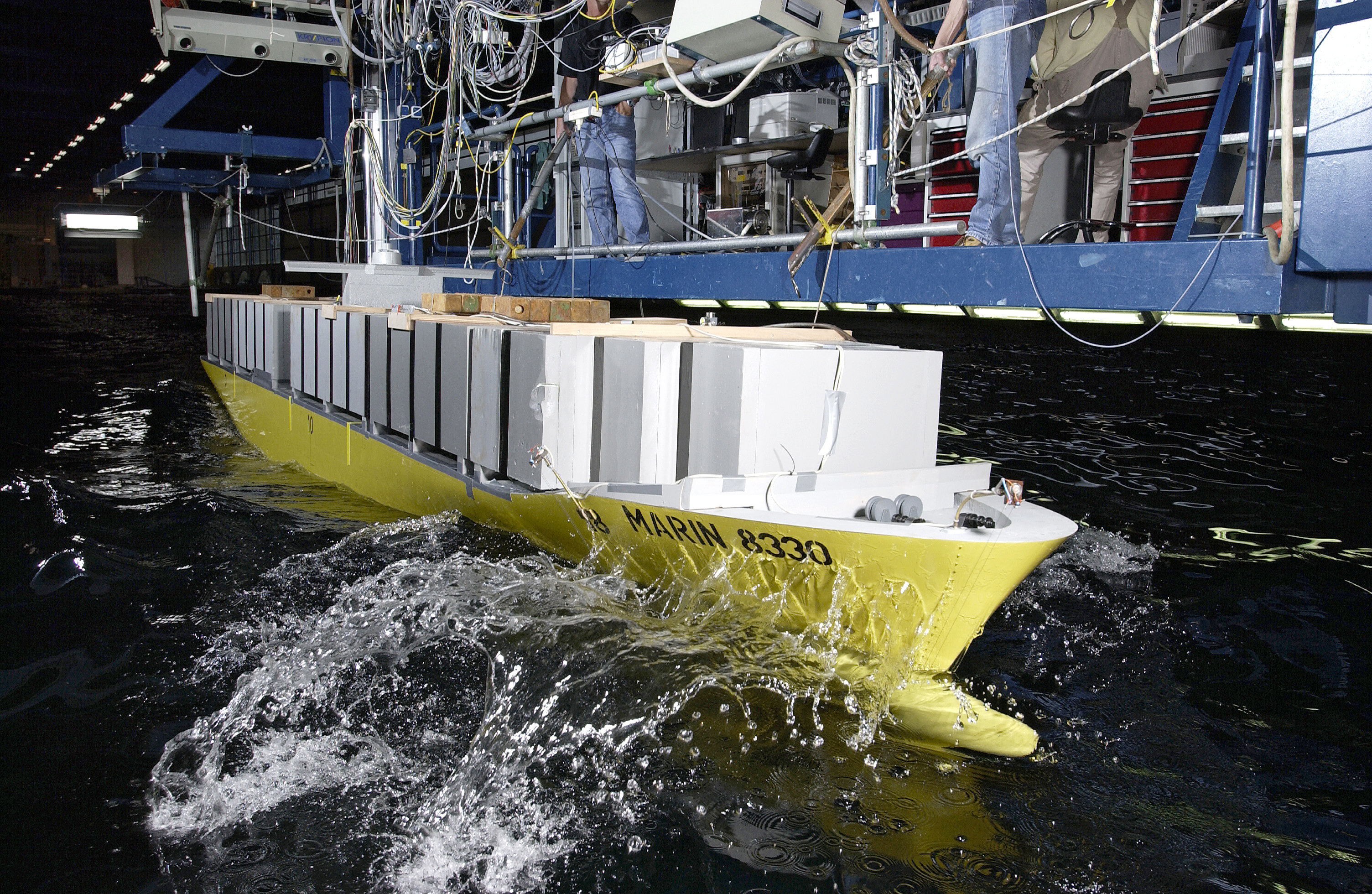 modeltesten bij MARIN